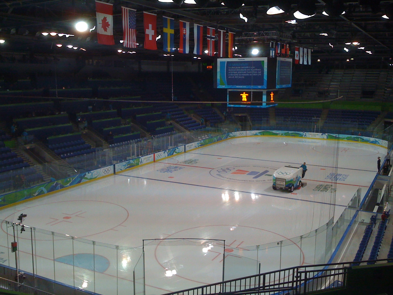 Before women's hockey at the 2010 Women Olympics: Russia vs. USA